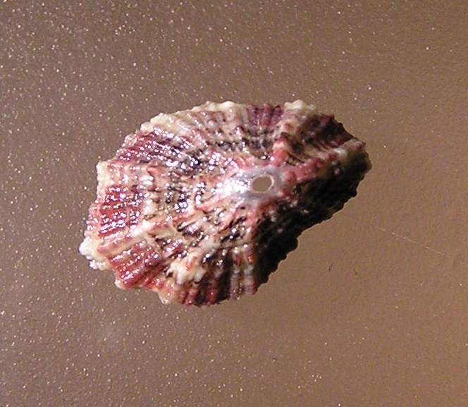 Fissurella virescens, Sowerby, 1863; a keyhole limpet from the family Fissurellidae; Coiba Island, Panama